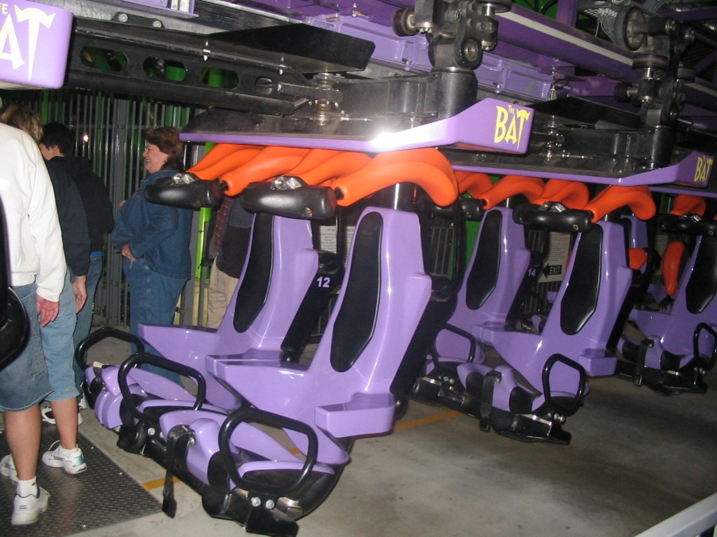 In the station the Bat train at Lagoon Utah